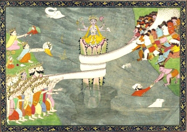 Kurma Avatar of Vishnu, holding up mount Mandara, during Samudra manthan, with snake Vasuki wrapped around. ca 1870. Uttar Pradesh, India.